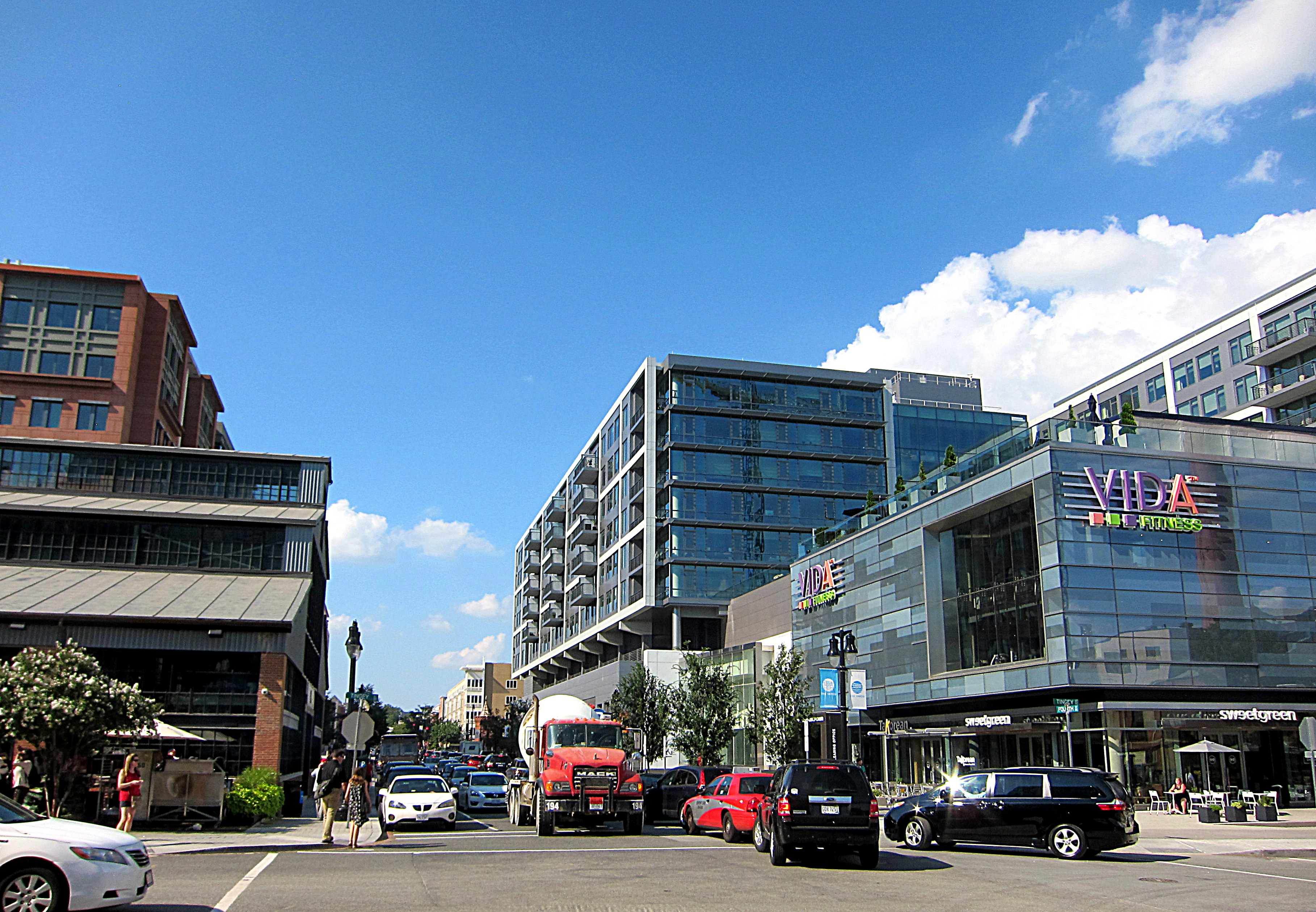 The intersection of 4th and Tingey Streets SE in the Navy Yard neighborhood of Washington, D.C.